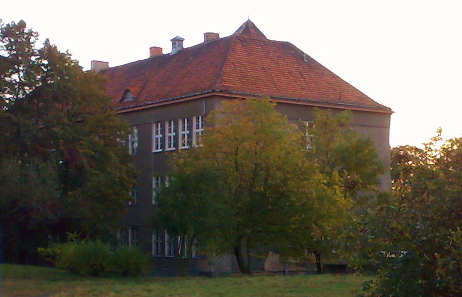 Poznan, Bonin-district, school.